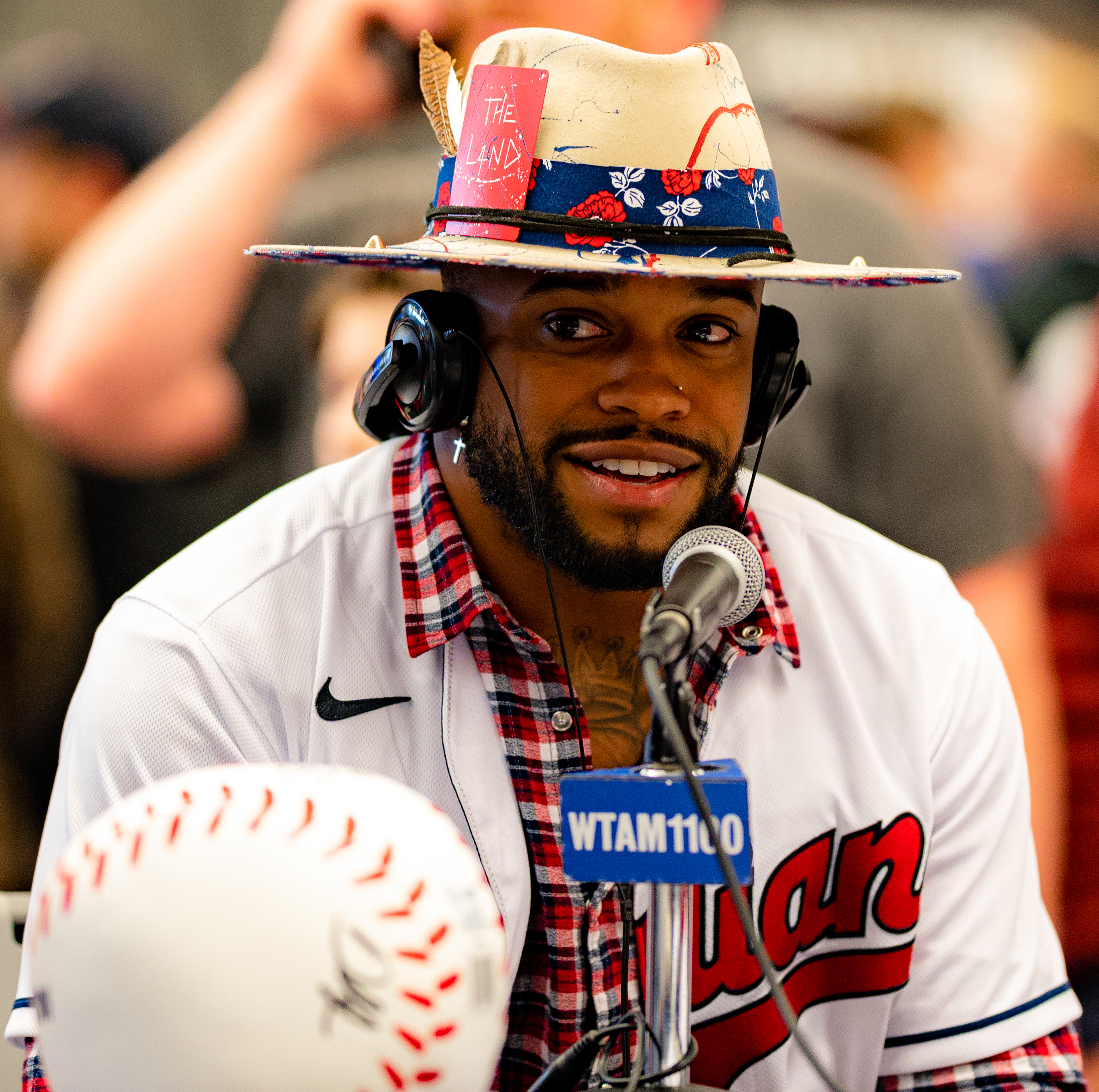 Delino DeShields Jr. gives an interview to WTAM at Cleveland Indians Tribe Fest at Huntington Convention Center of Cleveland in February 2020.